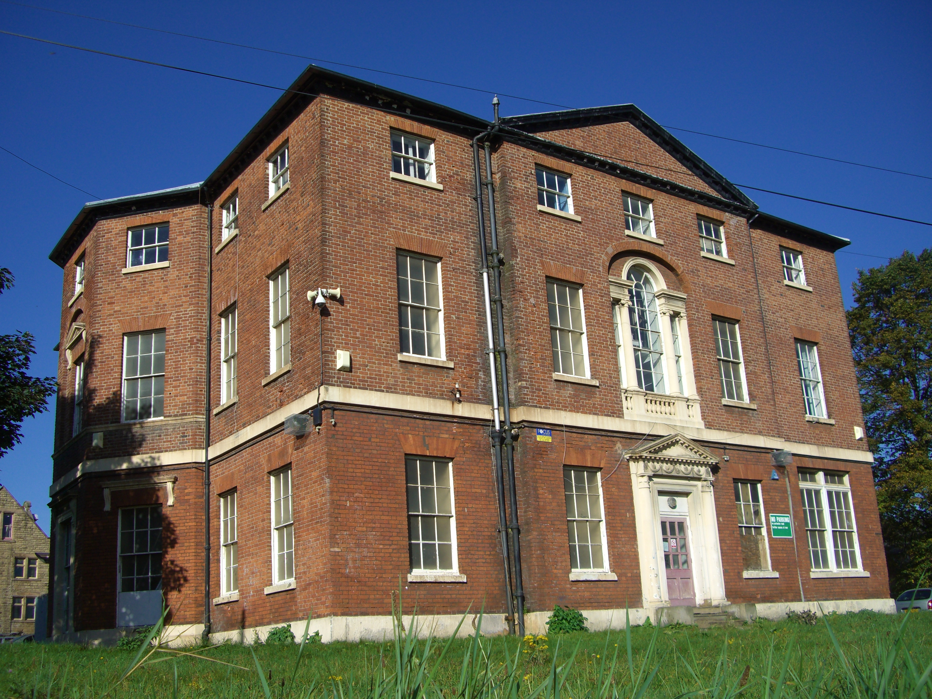 Mount Pleasant Community Centre in Sheffield, South Yorkshire, England